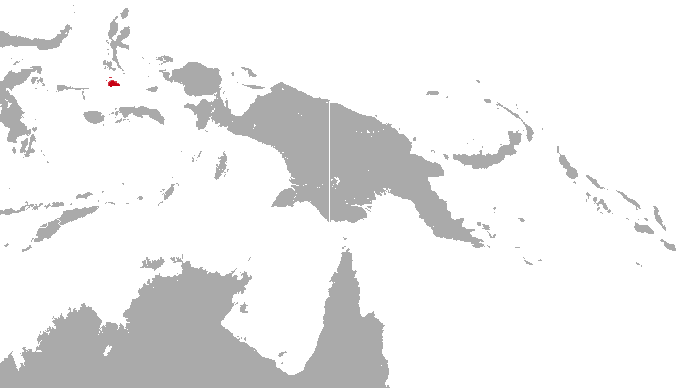 Rothschild's Cuscus (Phalanger rothschildi) range